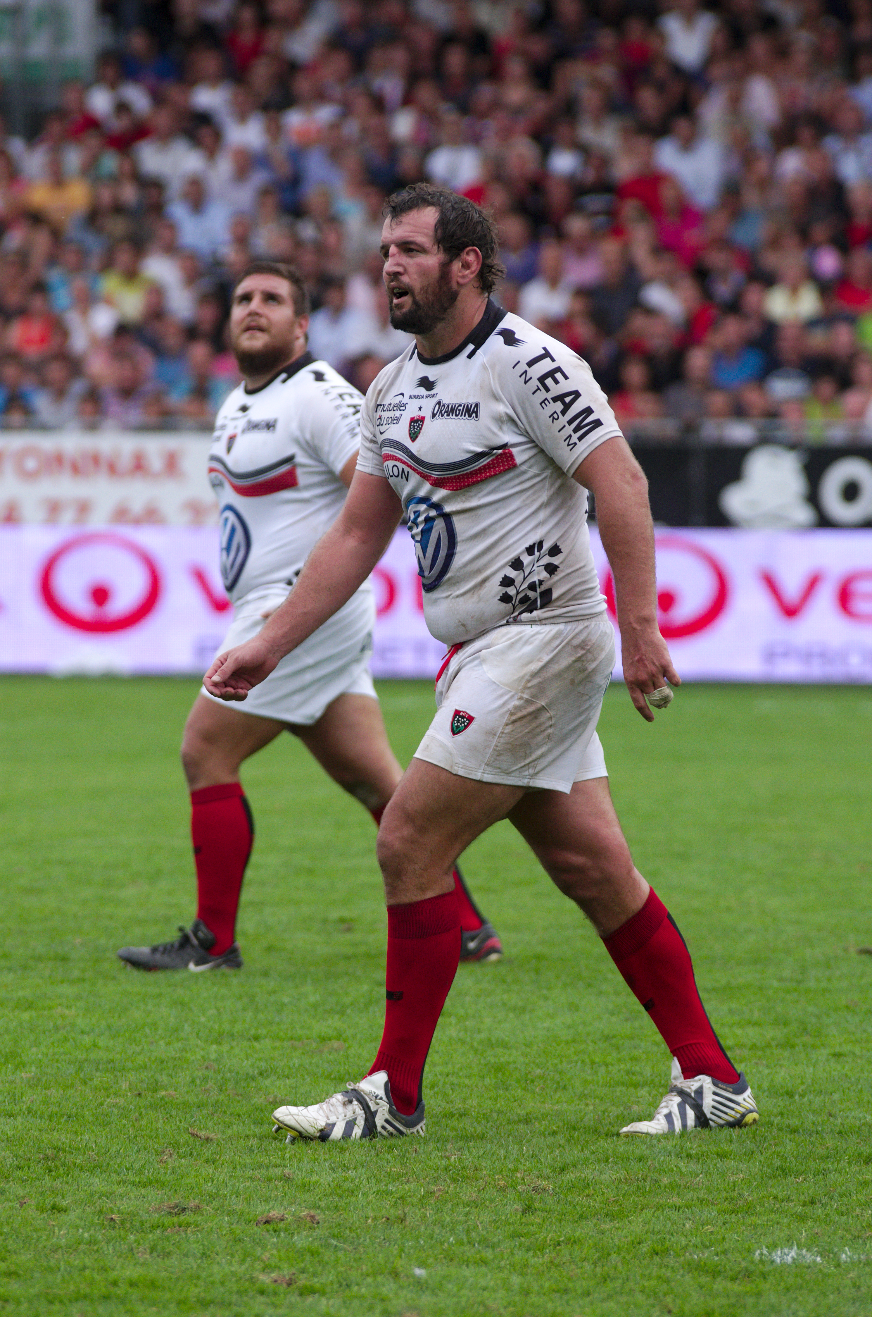 USO - RCT - 28-09-2013 - Stade Mathon - Carl Hayman